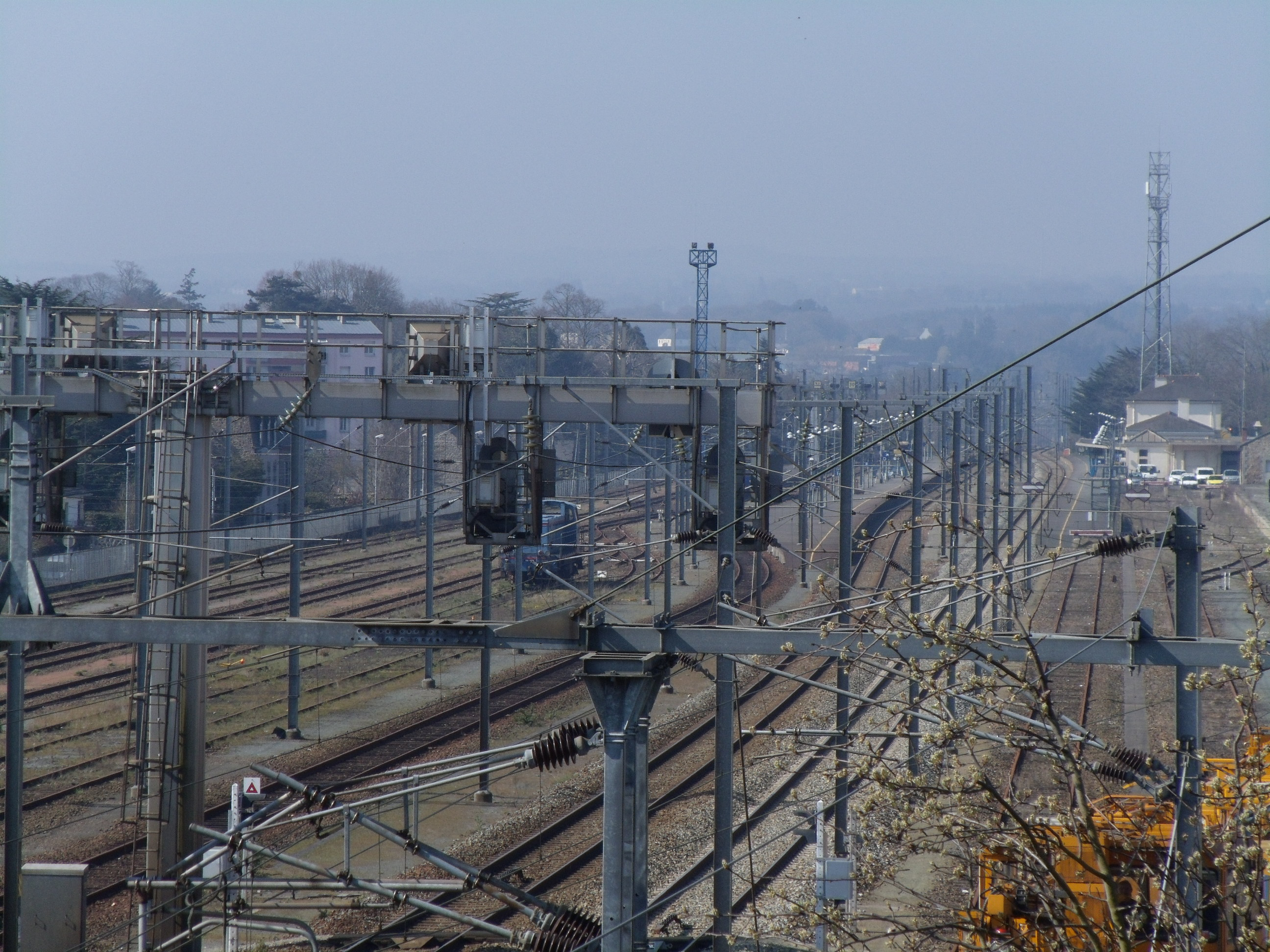 Guingamp station view from the ex-RN12 bridge